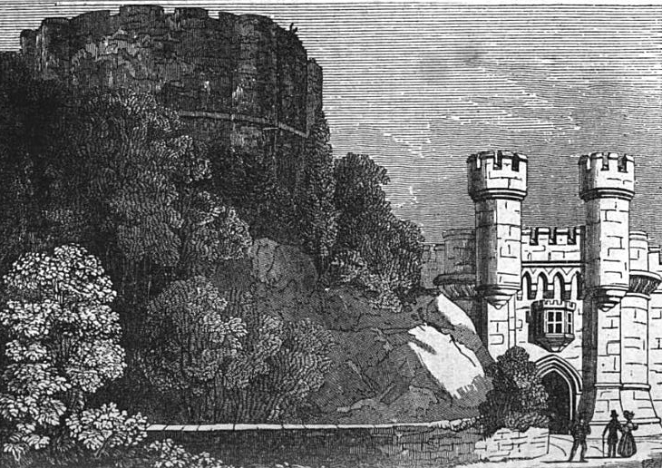 York Castle, engraved in 1846